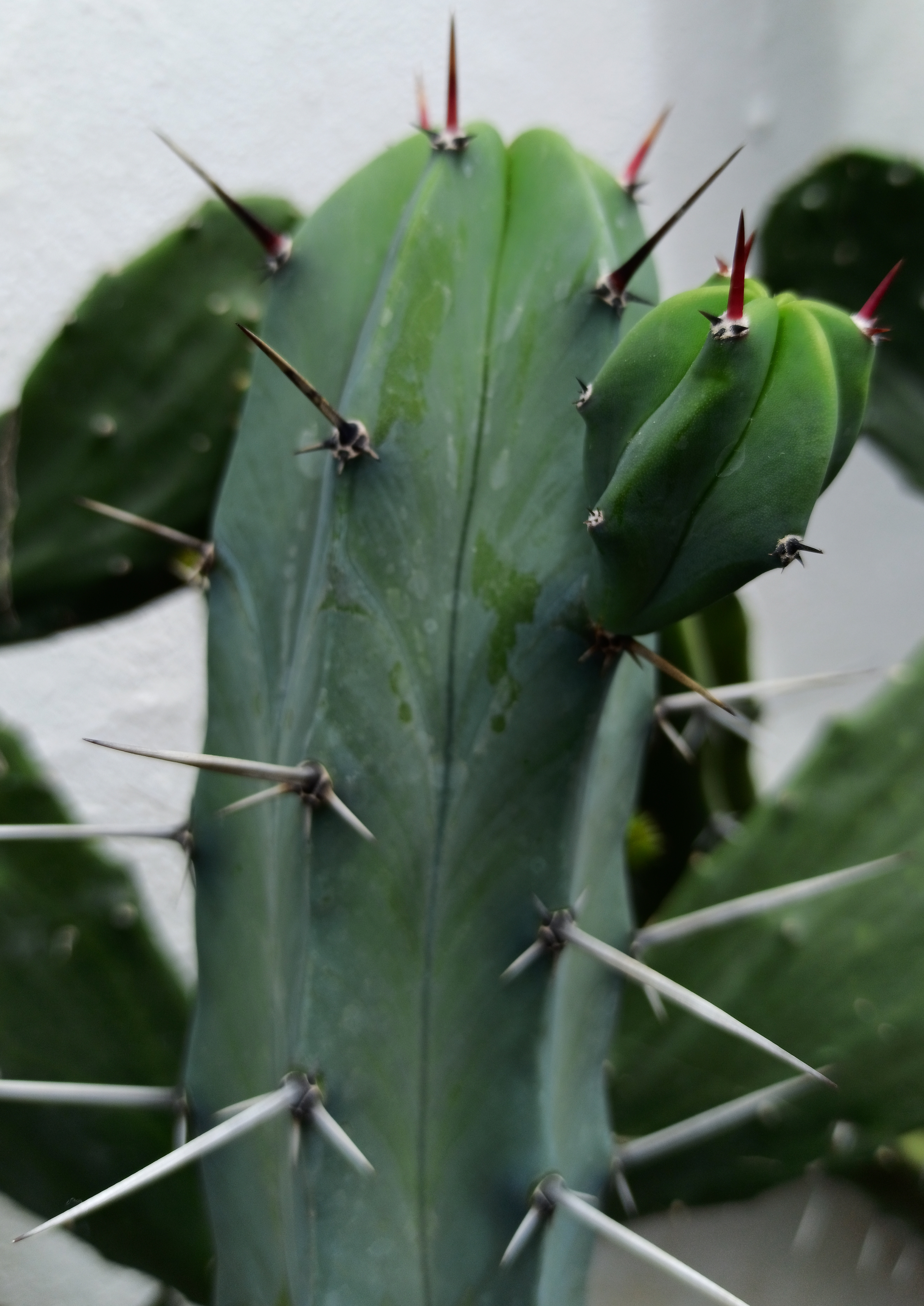 Myrtillocactus geometrizans, branching.